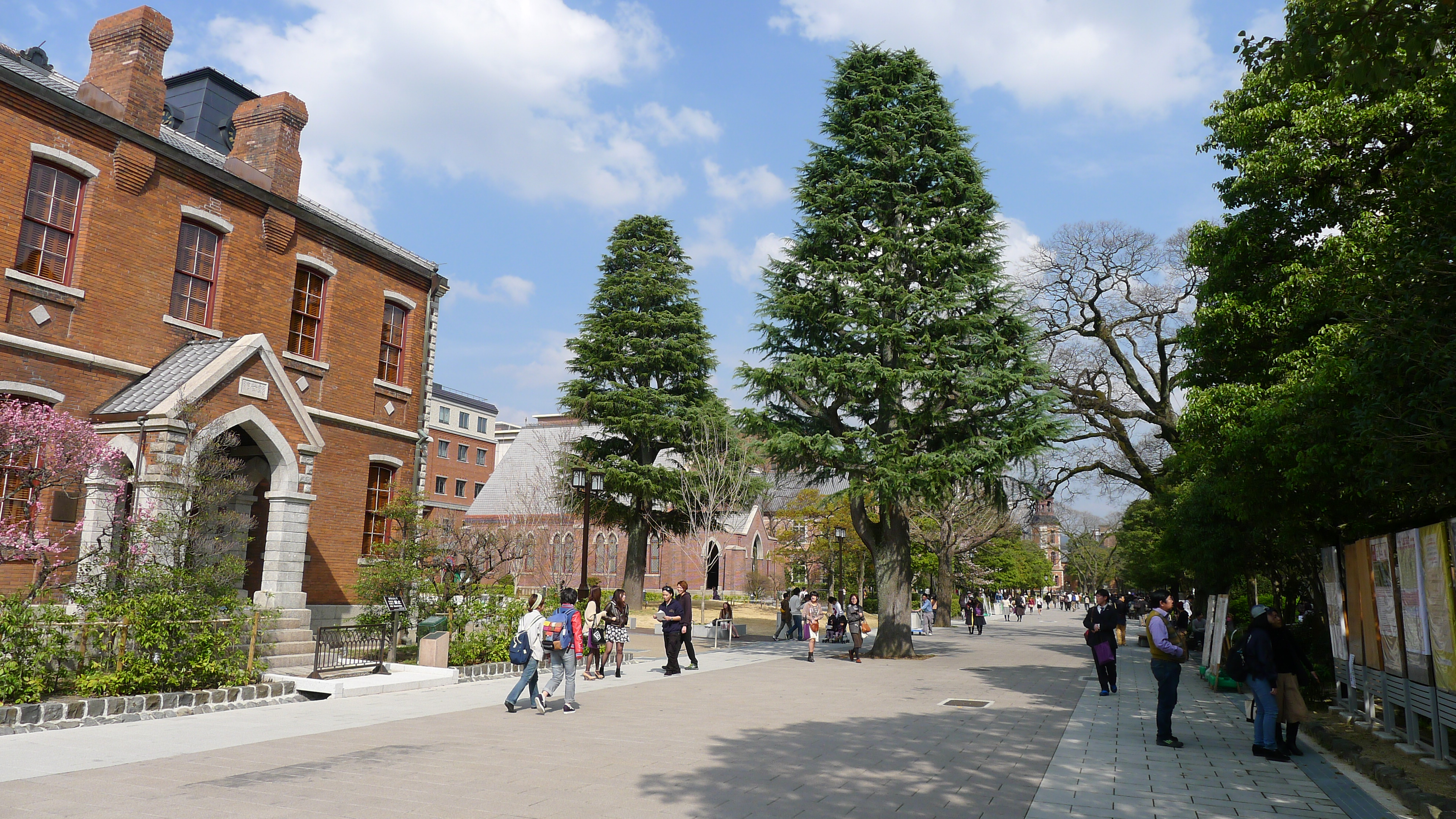 Dôshisha University